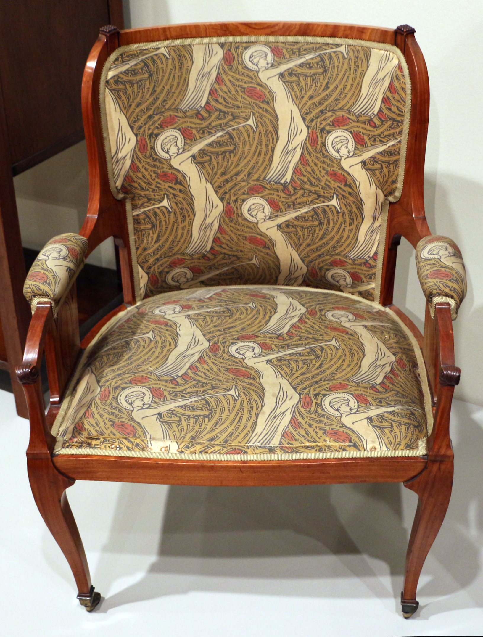 European furniture in the Art Institute of Chicago